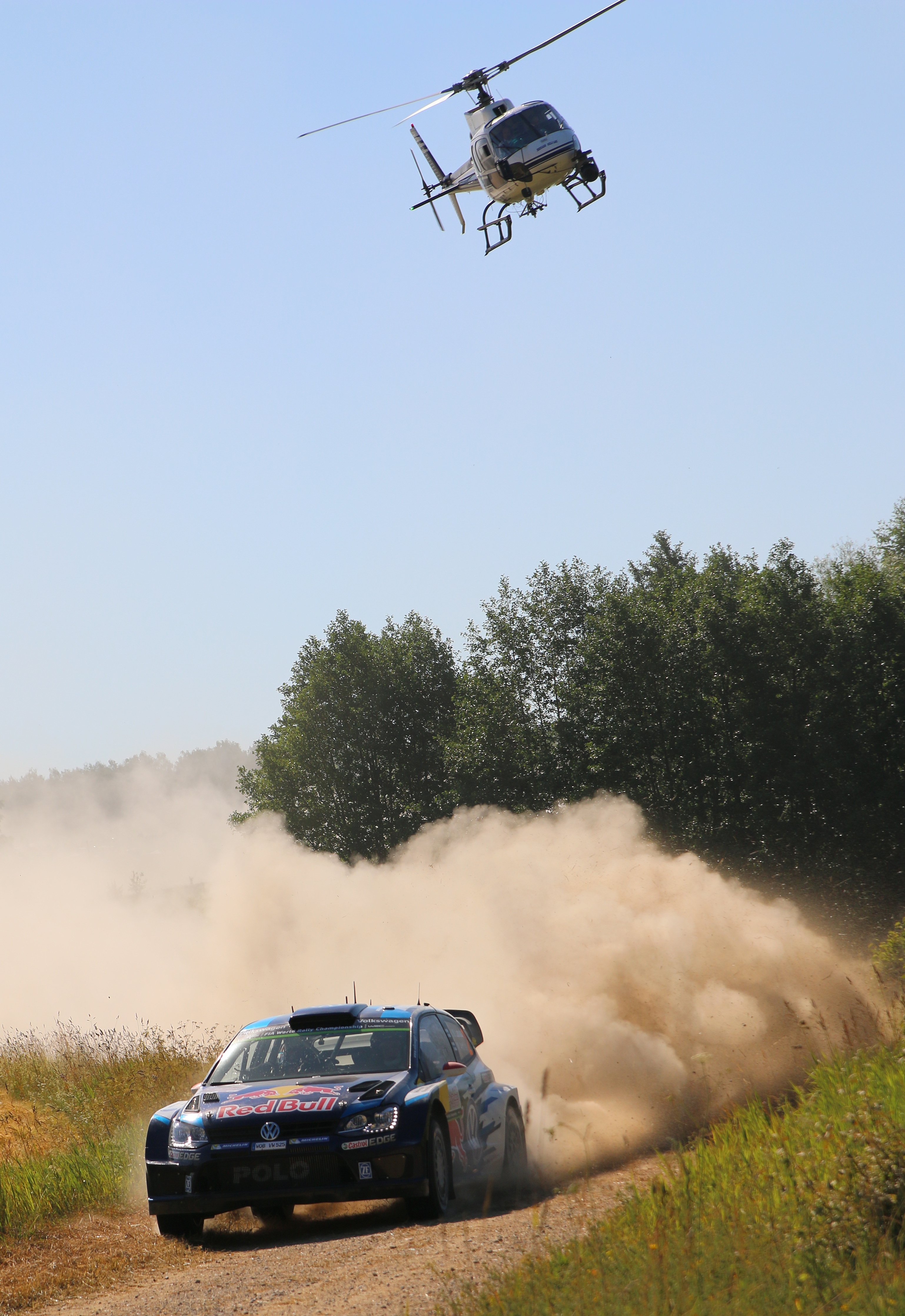 Jari-Matti Latvala, OS 10 Mazury, 72nd LOTOS Rally Poland